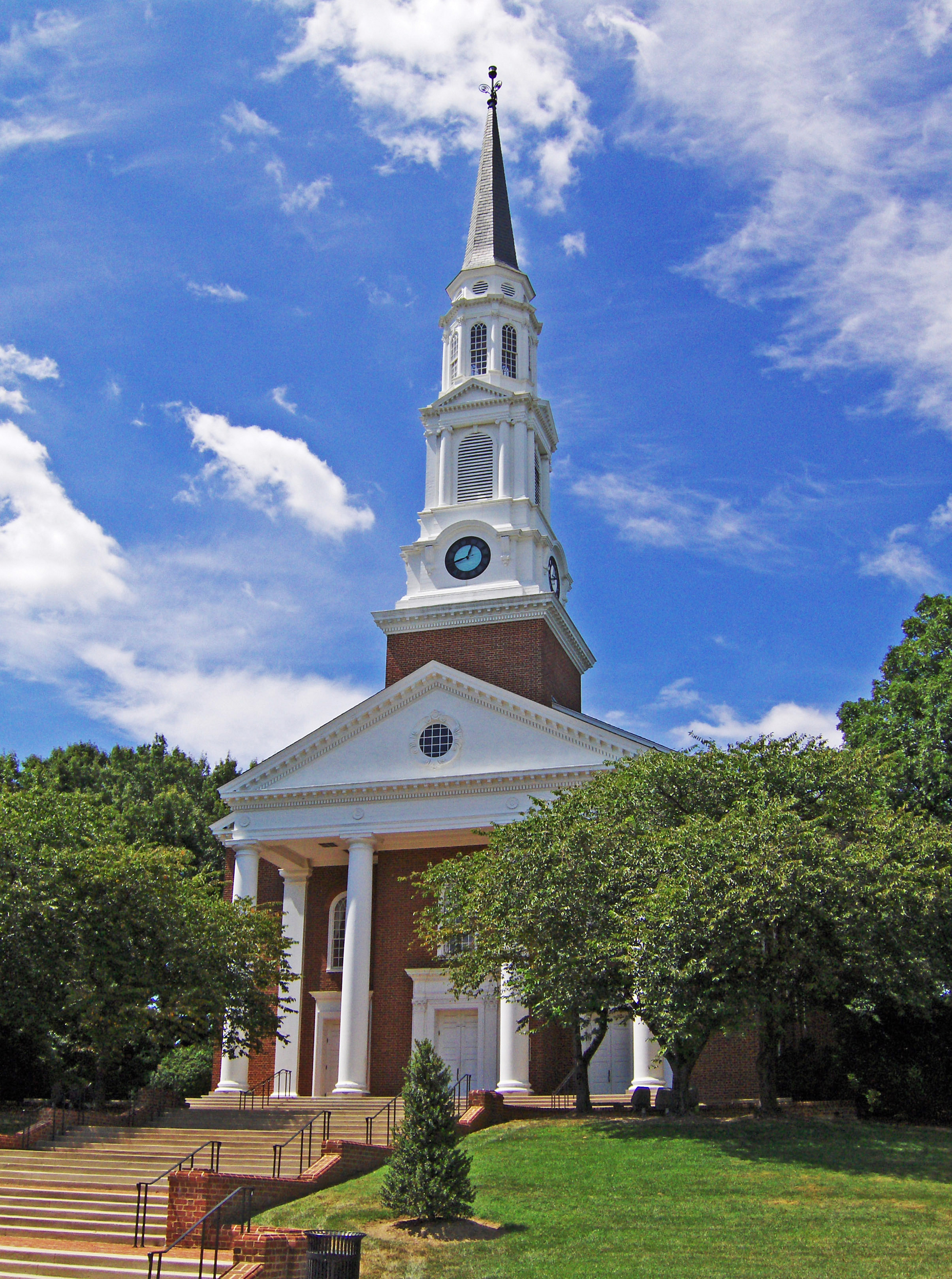 Memorial Chapel at the University of Maryland, College Park.